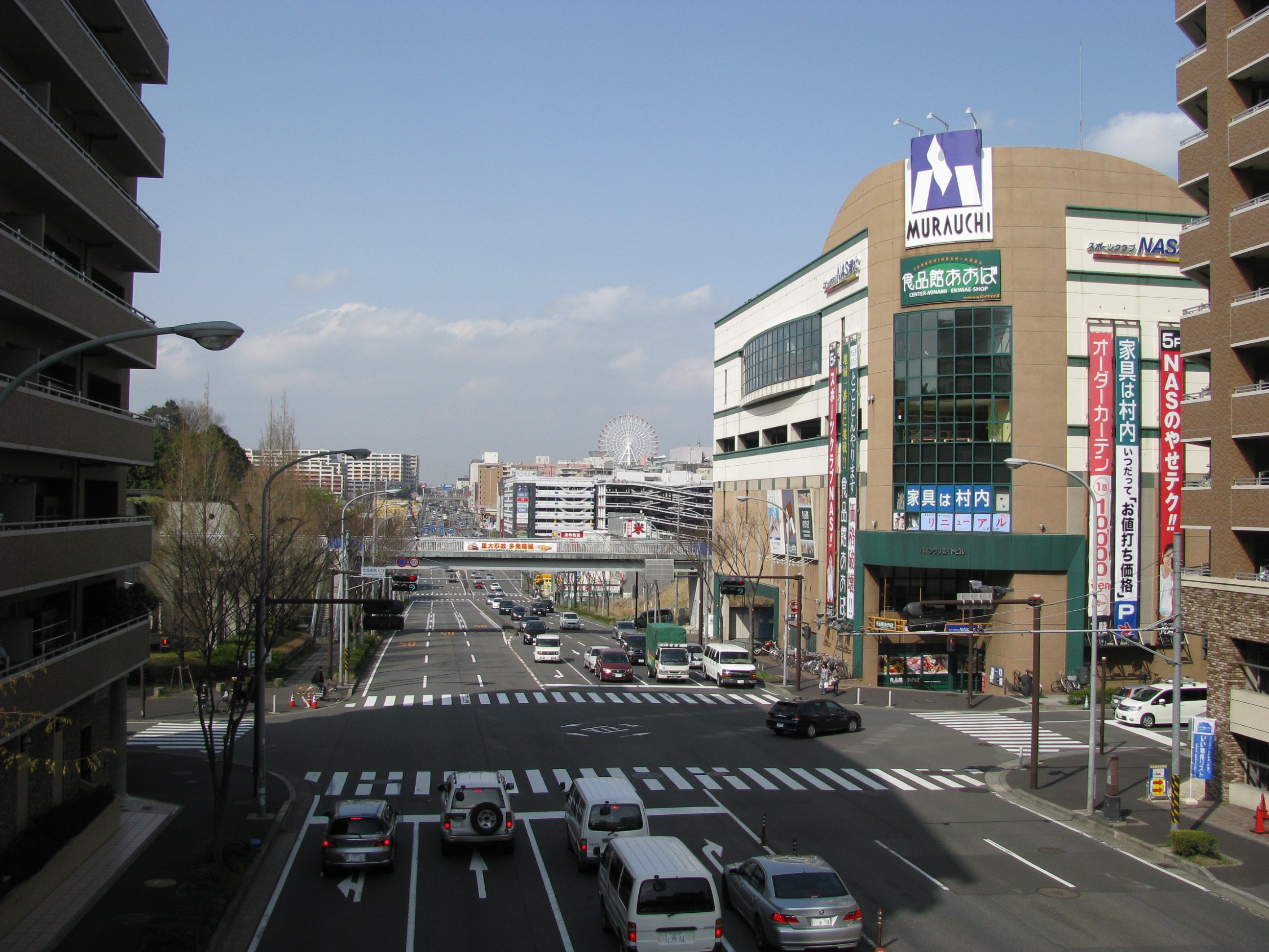 The Kōhoku New Town is a large residential development, located in Tsuzuki-ku, Yokohama, Kanagawa, Japan.